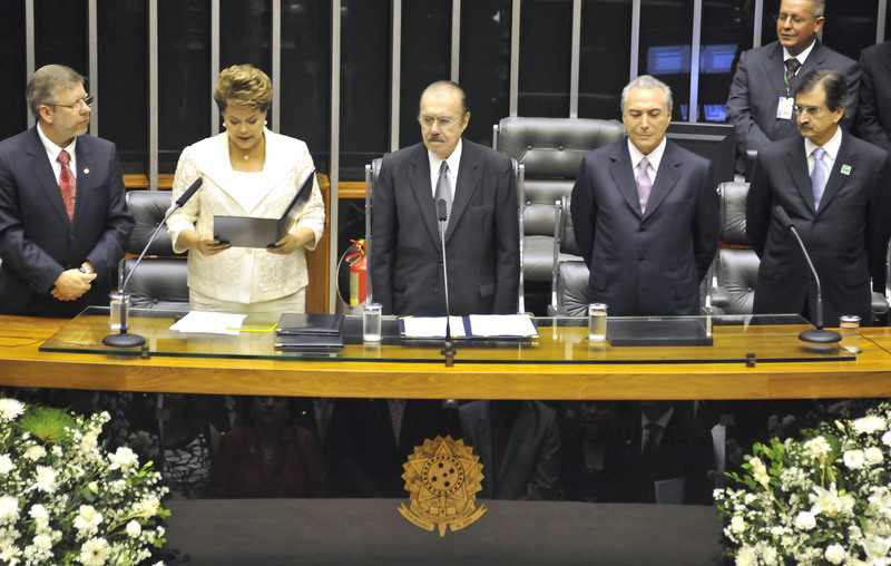 Dilma Rousseff taking her oath during her inaugural ceremony as Brazil's first female President.